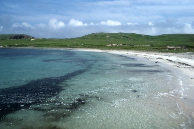 Balta Isle The beach at the south end of the island.